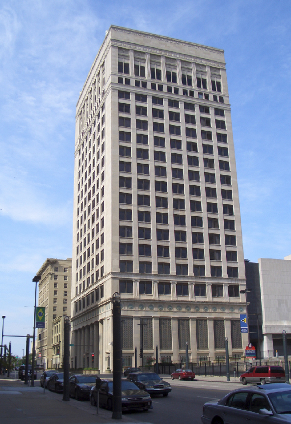 925 Grand Building, former Federal Reserve of Kansas City, Missouri